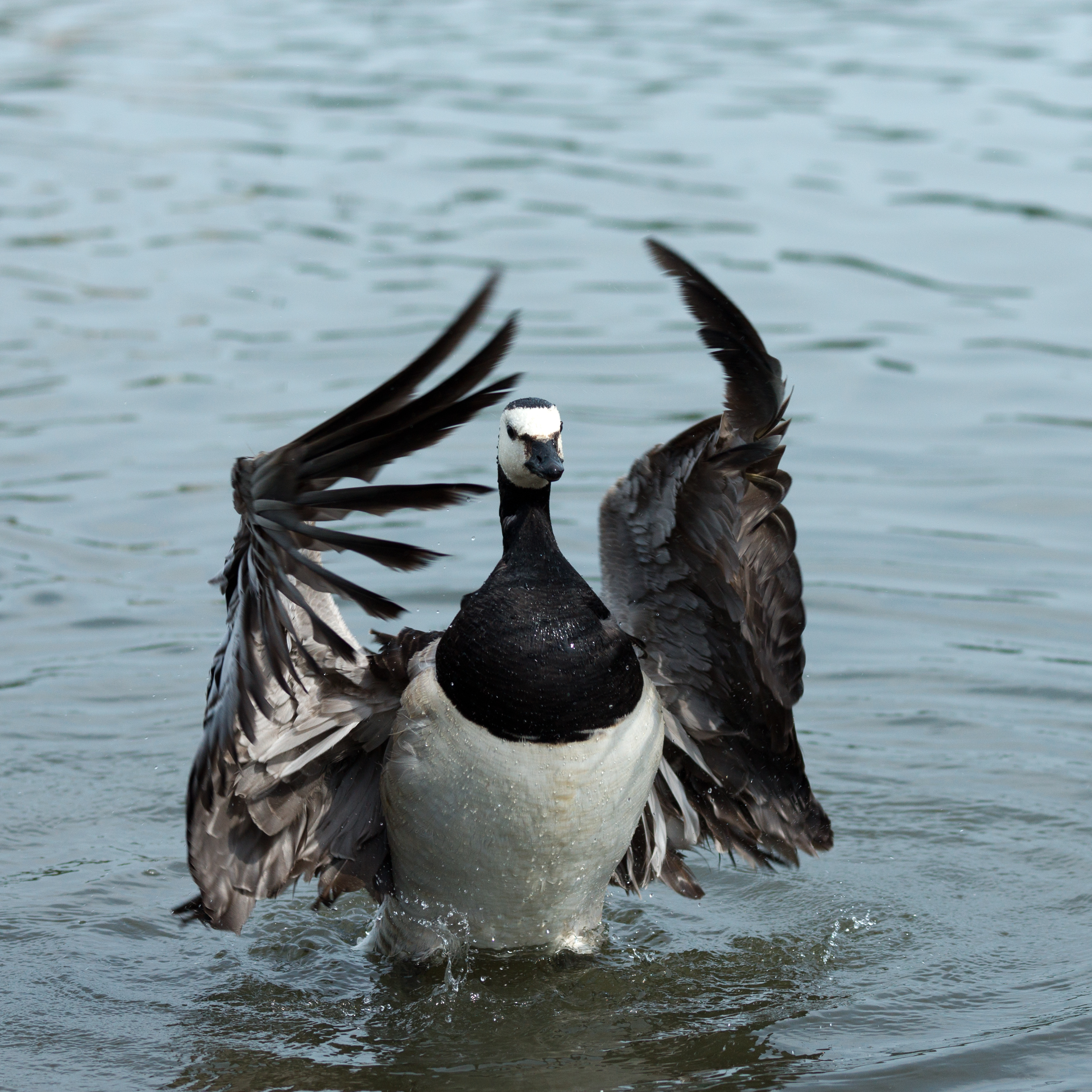 Barnacle Goose in Helsinki.